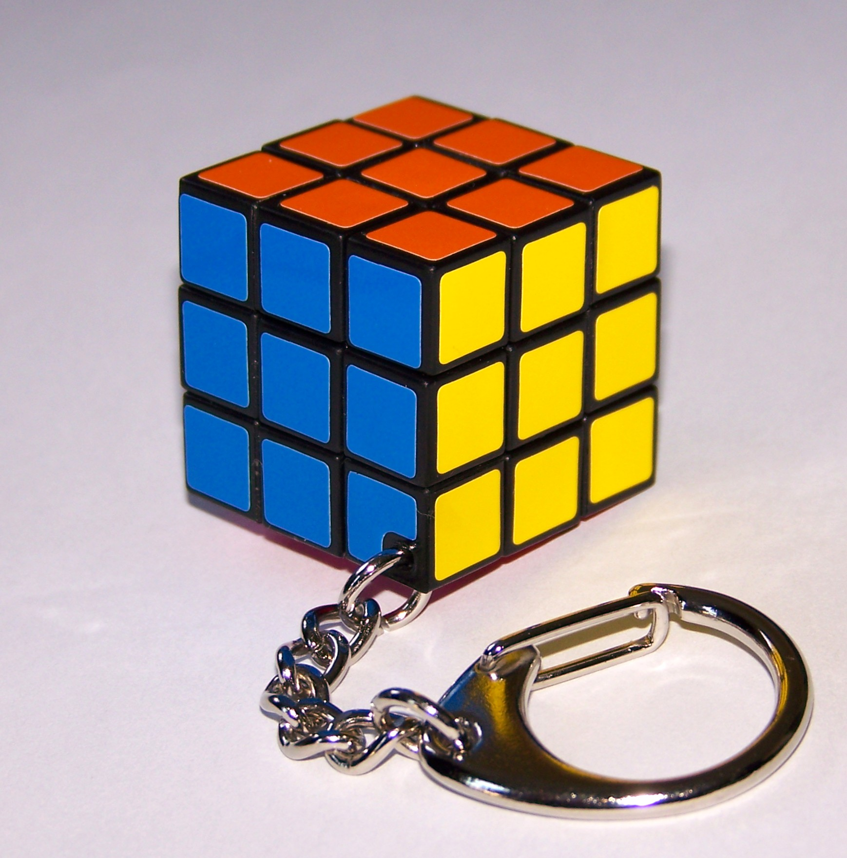 Rubik's Cube Keychain (real size : 3×3×3 cm)